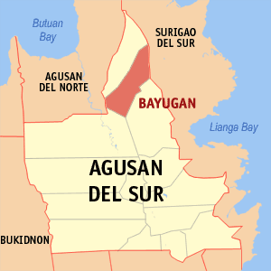 Map of the Agusan del Sur showing the location of Bayugan